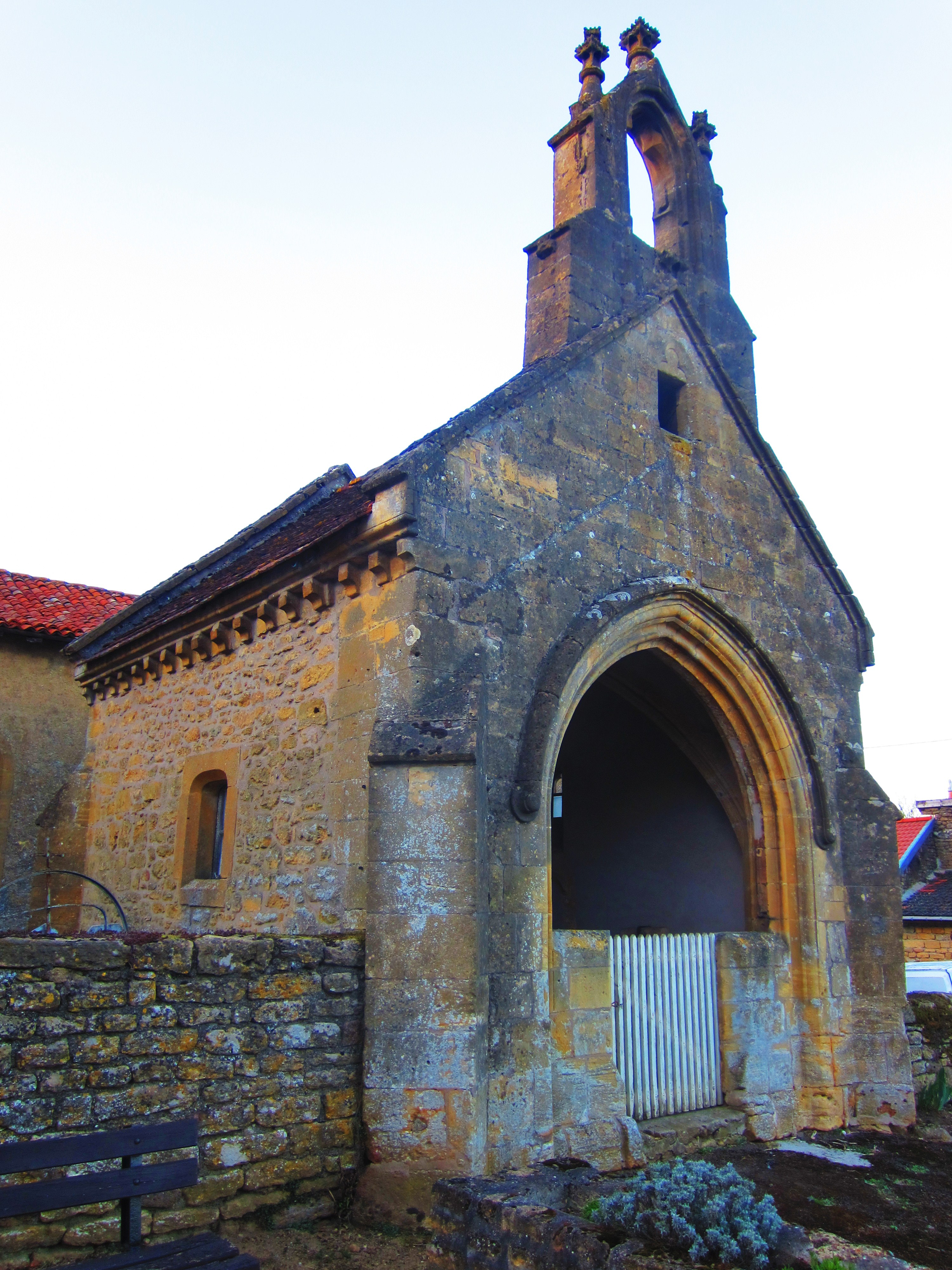 Flabeuville Colmey chapel